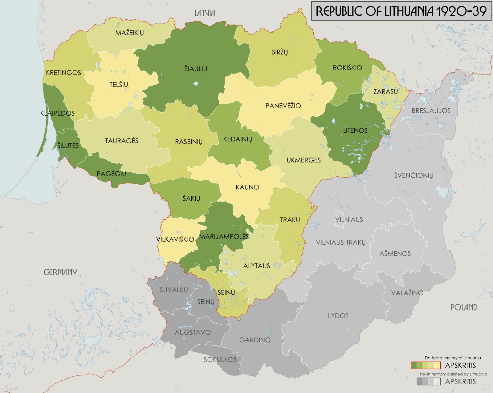 Administrative map of the counties of the Republic of Lithuania 1918-1940. Source data: "Badan Spraw Narodowosciowych" Jan 1919 (1:750k) courtesy of maps4u.lt. "Mapa Administracyjna Rzeczypospolitej Polskiej" (1:300k) courtesy of .